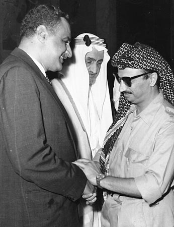 Egypt´s President Nasser with Yasser Arafat and King Faisal in the last Arab summit right before his death